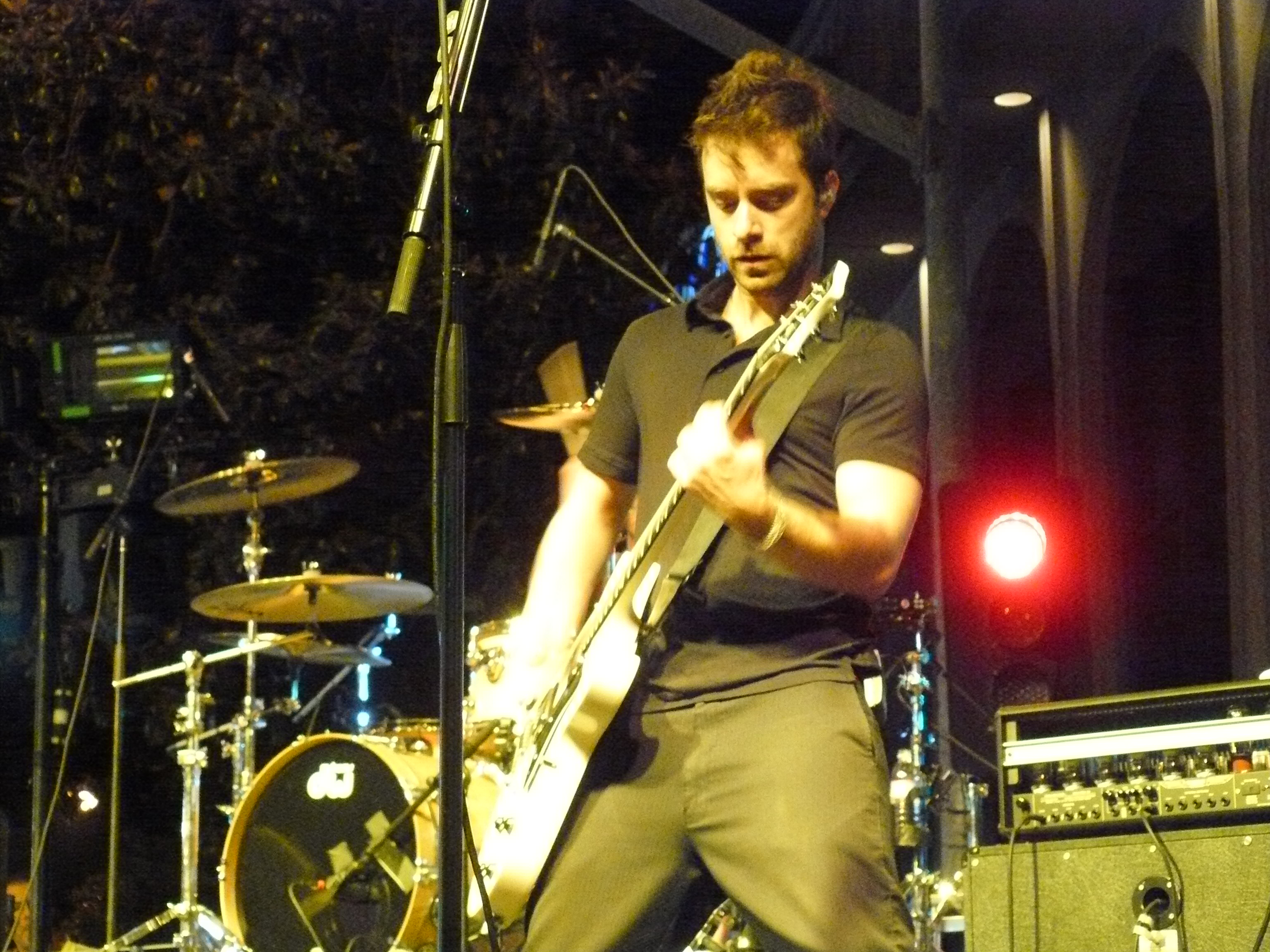 Sebastien Lefebvre of Simple Plan at XFest in Modesto, California.